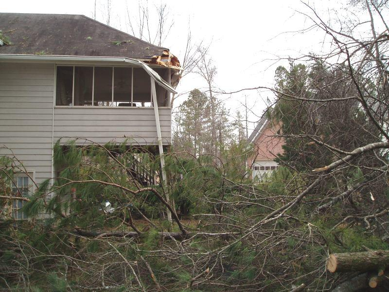 Damage from the Henry County, Georgia tornado